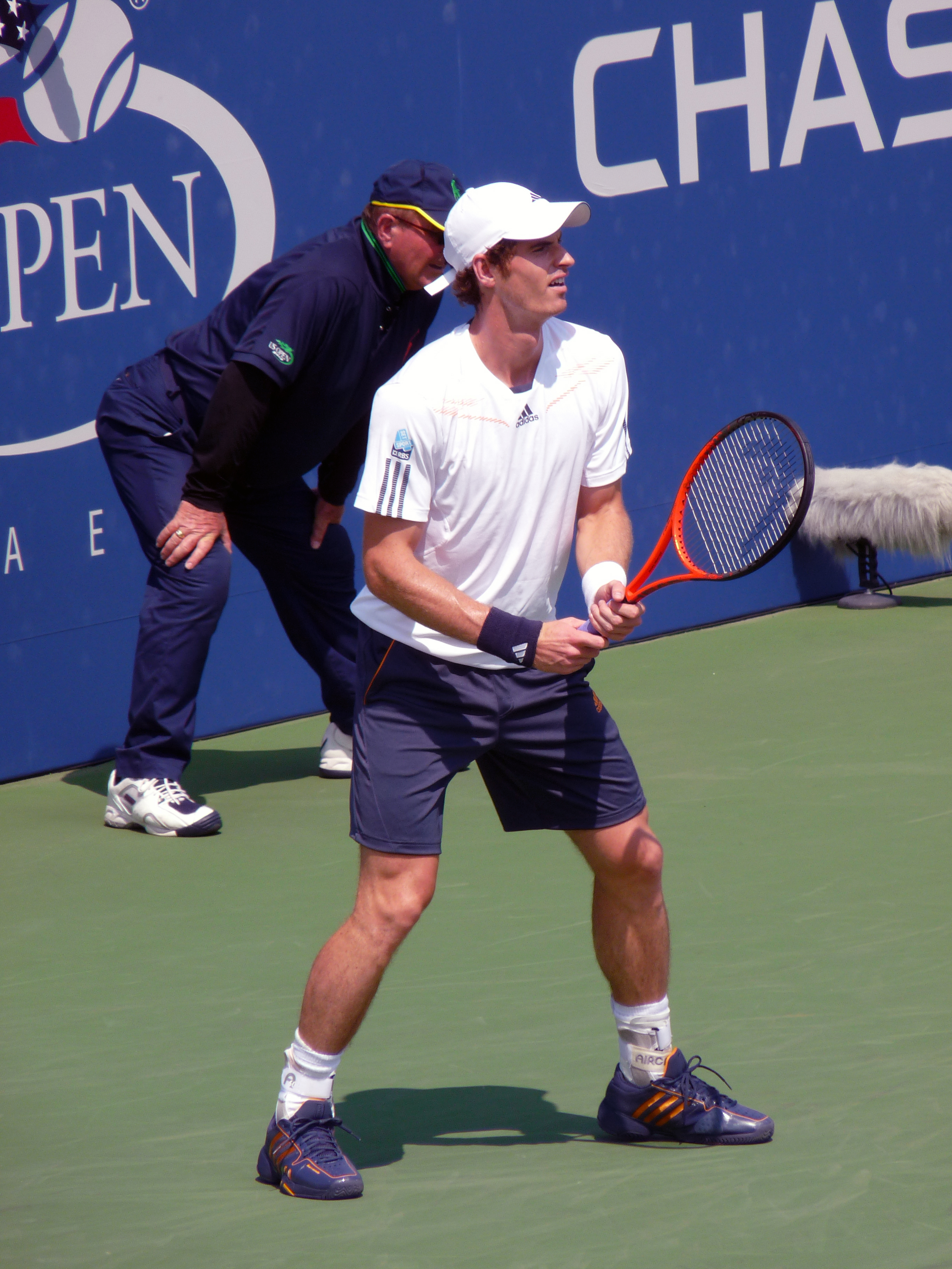 US Open 2012 Men's Singles 3rd Round (Louis Armstrong Stadium) Andy Murray [3] vs.Feliciano López [30] 7–6(7–5), 7–6(7–5), 4–6, 7–6(7–4) Andy Murray v Feliciano López US Open 2012. Third Round on Louis Armstrong Stadium. Murray won 7–6(7–5), 7–6(7–5), 4–6, 7–6(7–4)